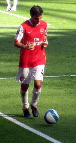 Spanish football (soccer) player Cesc Fàbregas